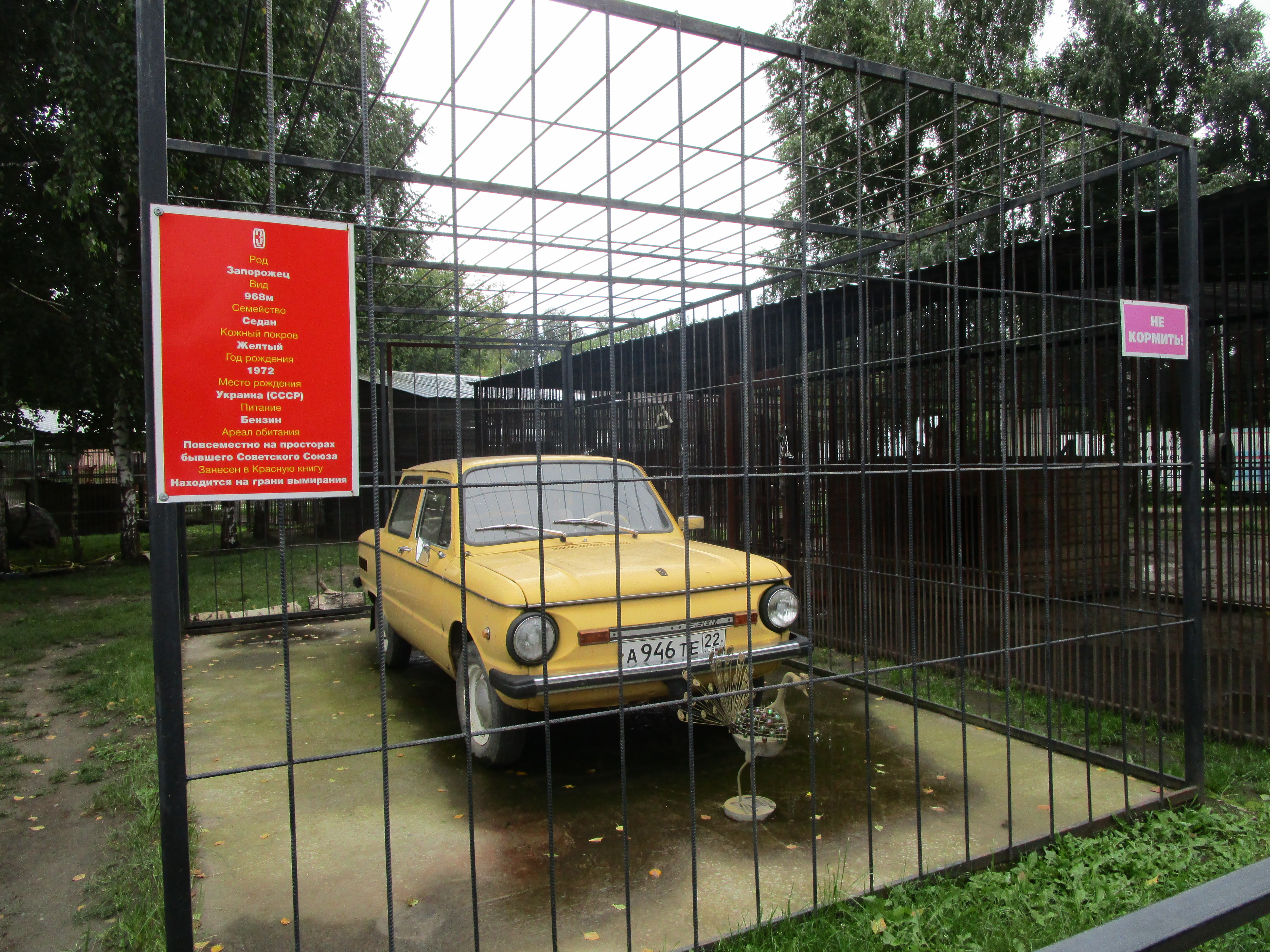 Barnaul's zoo exhibit - "ZAZ-968M"